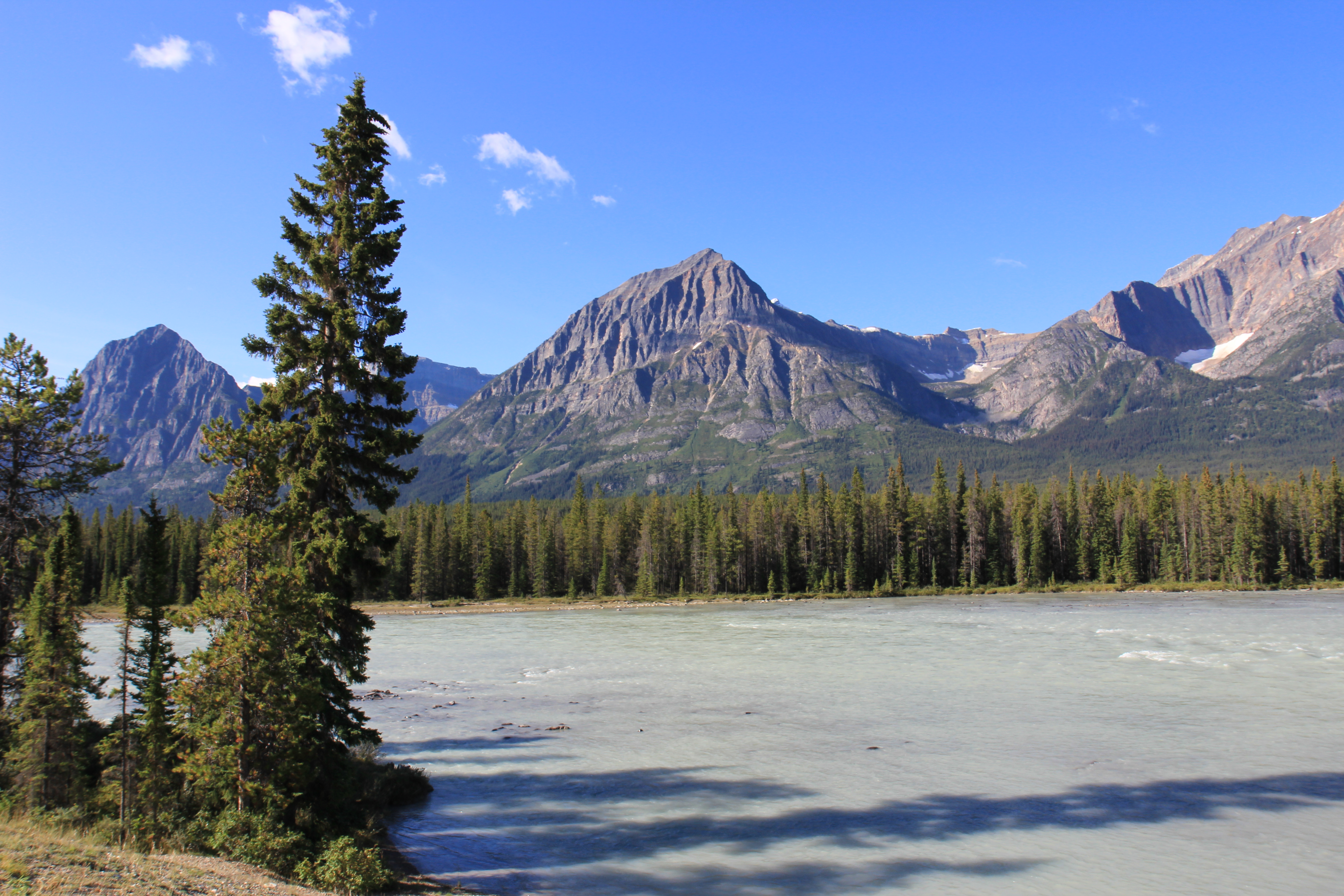 The Athabasca River and the Rocky Mountains in the background at Jasper National Park in Alberta.